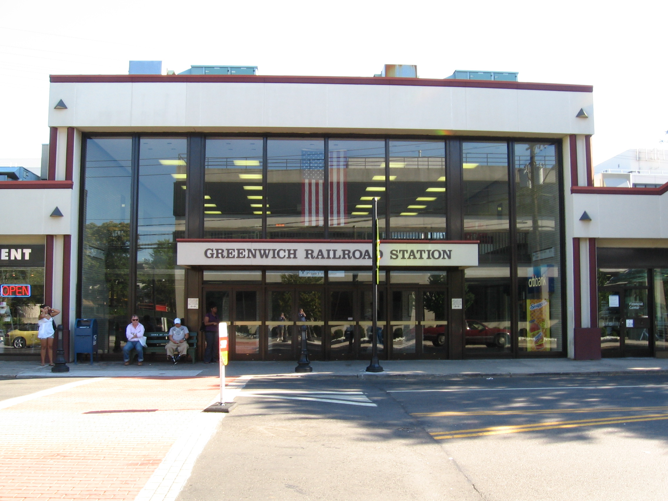 Greenwich Metro-North railroad station, front entrance, in downtown Greenwich, Connecticut